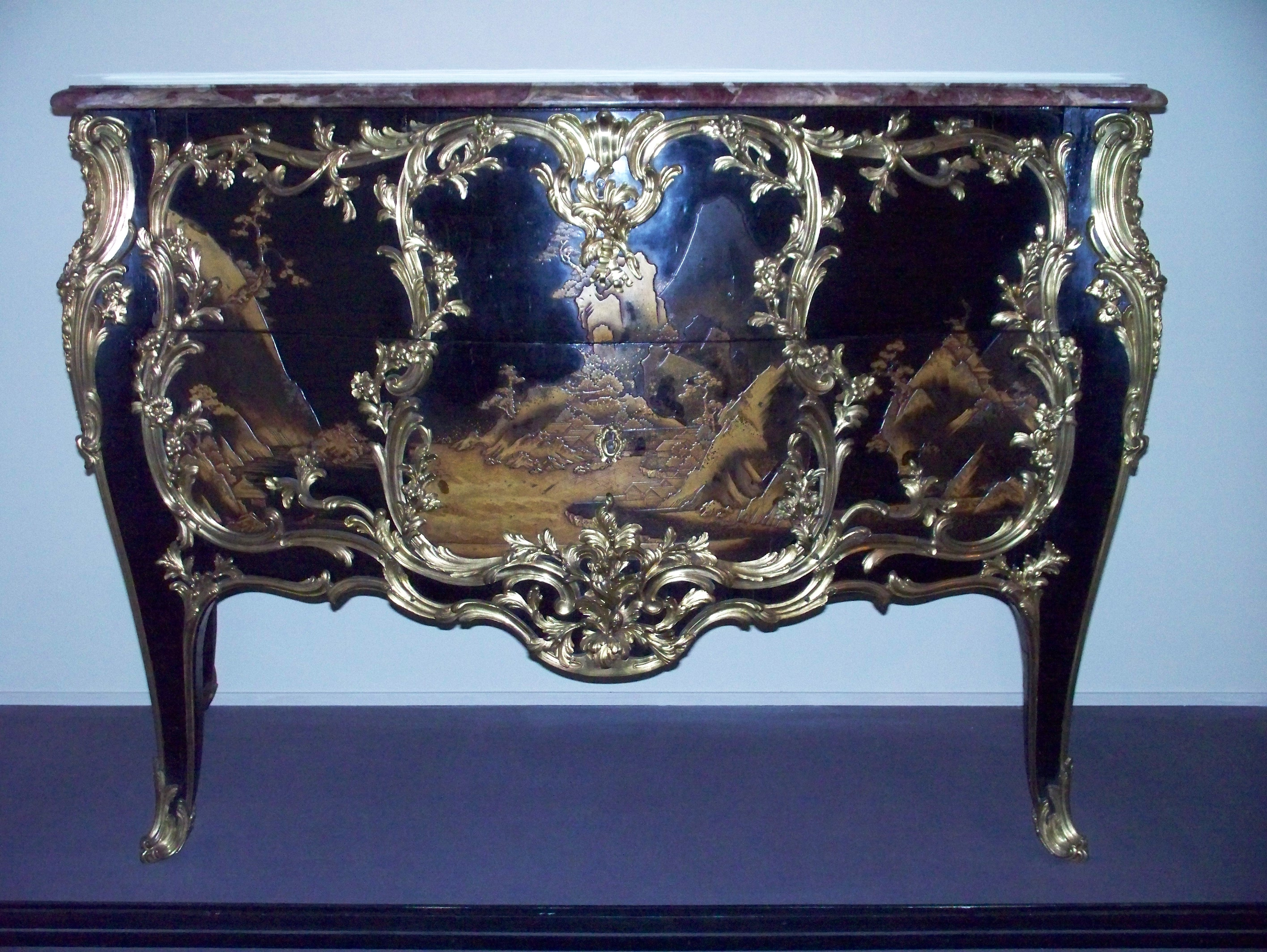 Commode Carcase of oak mounted with panels of Japanese lacquer & painted in black imitation lacquer; gilt bronze mounts, marble slab top Stamped Joseph for Joseph Baumhauer (d.1772); made by Darnault French (Paris) 1760 - 65 Museum no. 1013-1882 Carcase of oak mounted with panels of Japanese lacquer & painted in black imitation lacquer; gilt bronze mounts, marble slab top, with gilt bronze rococo decoration, and a scene in lacquer of a Japanese village with trees and mountains. Wikipedia Loves Art at the Victoria and Albert Museum This photo of item # 1013-1882 at the Victoria and Albert Museum was contributed under the team name "Opal_Art_Seekers_4" as part of the Wikipedia Loves Art project in February 2009. Victoria and Albert Museum The original photograph on Flickr was taken by Forever Wiser—please add a comment to the original Flickr page whenever a use has been made on Wikipedia or another project. Project galleries on Flickr: this institution, this team